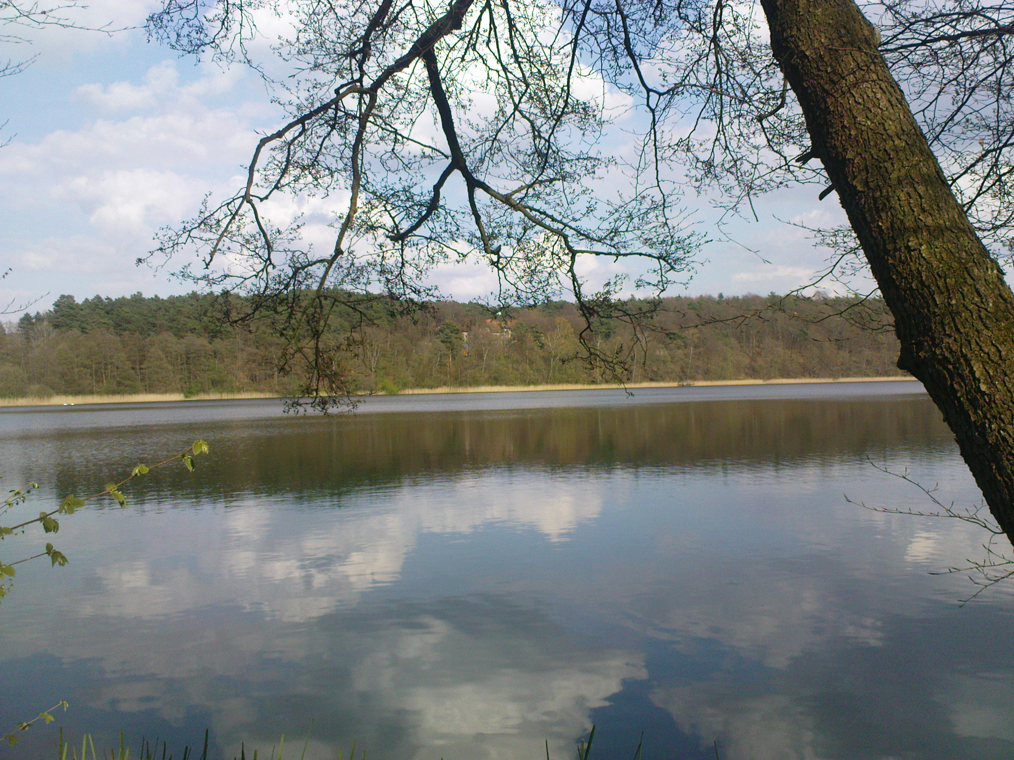 Jezioro Kańsko